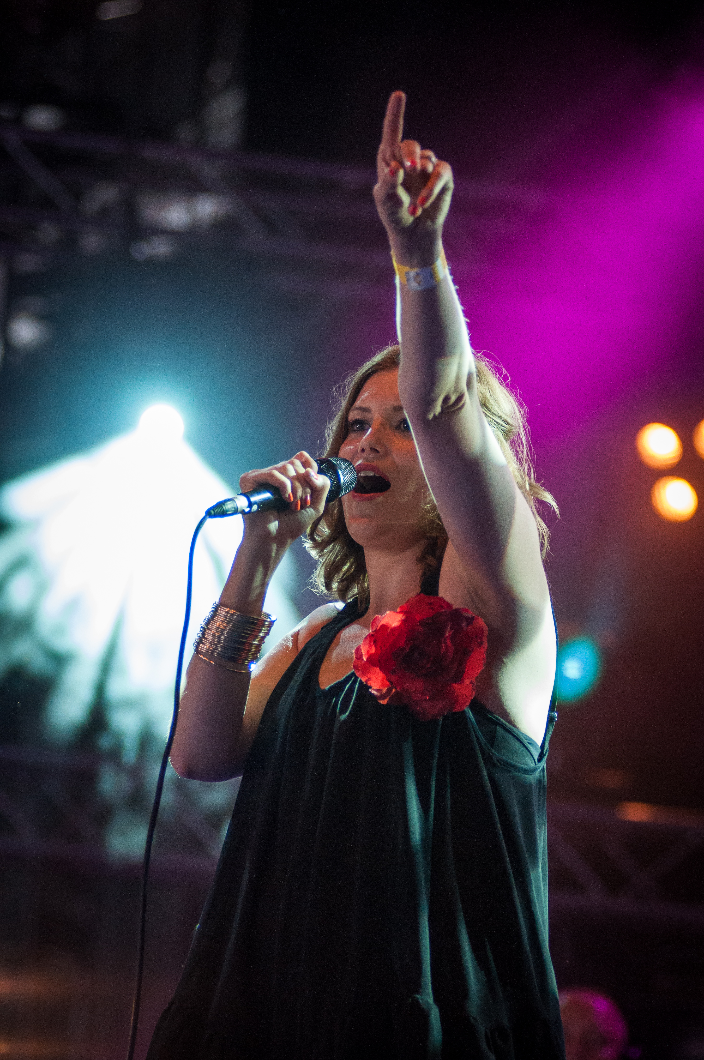 Finnish vocalist Laura Närhi performing at the 2011 Ilosaarirock festival in Joensuu, Finland.